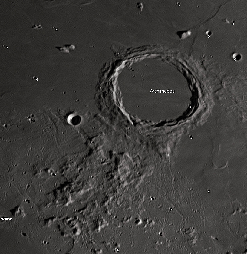 Archimedes lunar crater as seen from Earth with satellite craters labeled